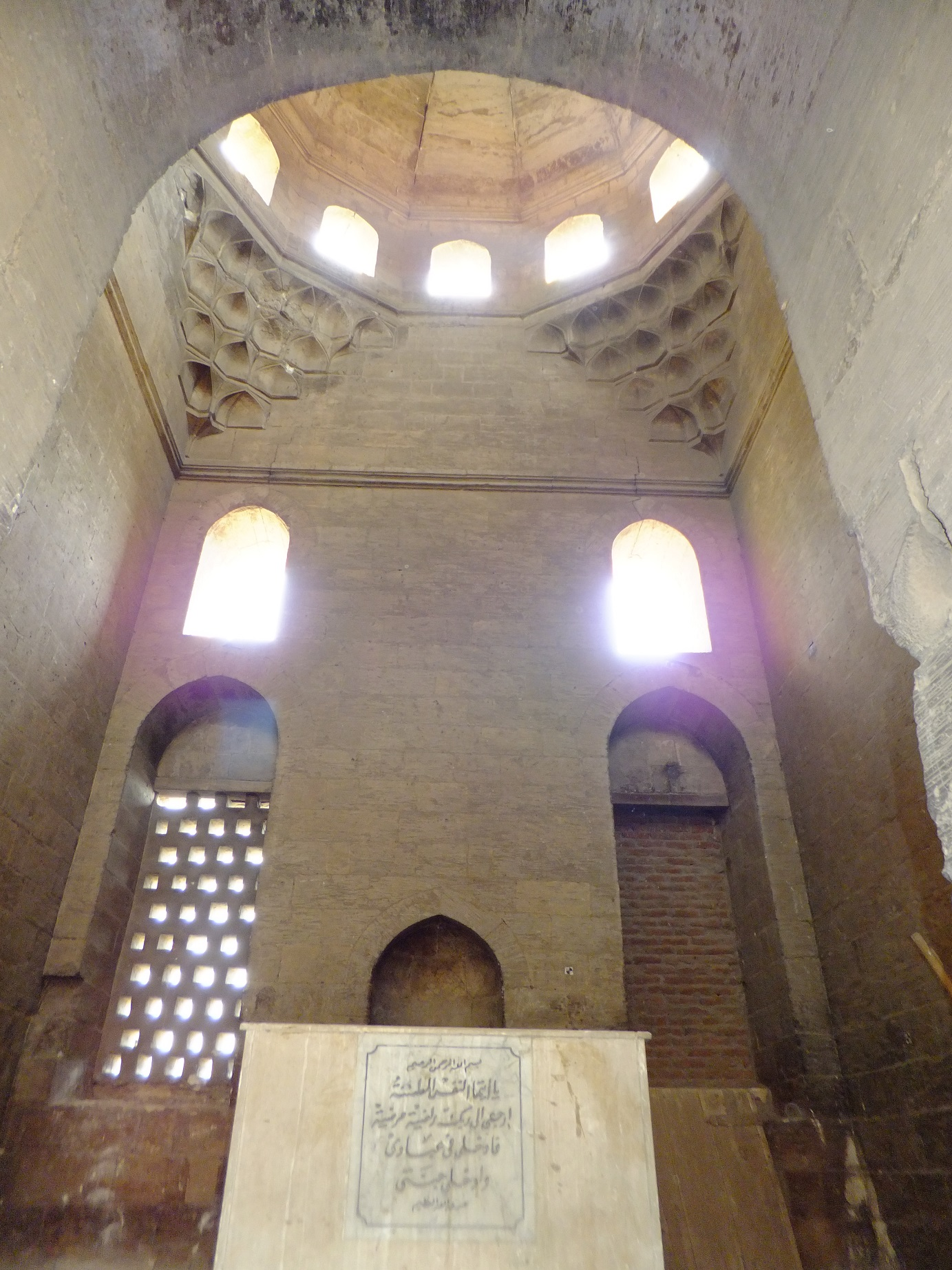 Inside a tomb chamber in the Sultaniyya mausoleum, Southern Cemetery (City of the Dead), Cairo.